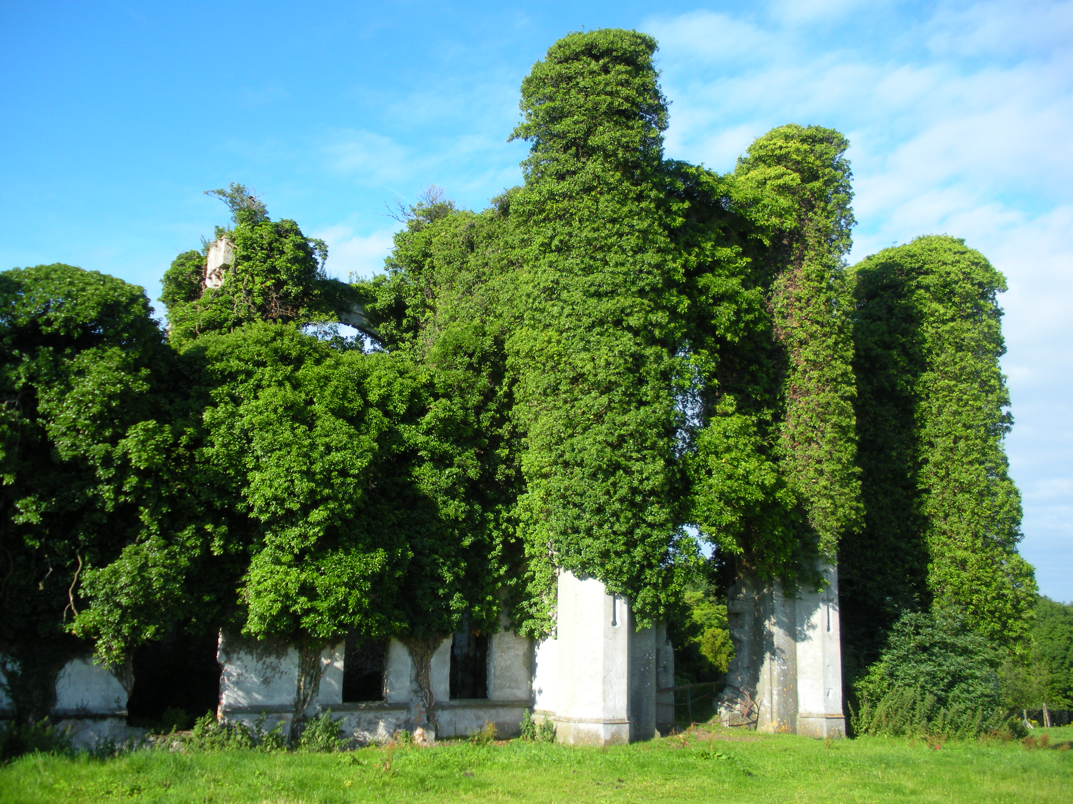 Moydrum Castle front